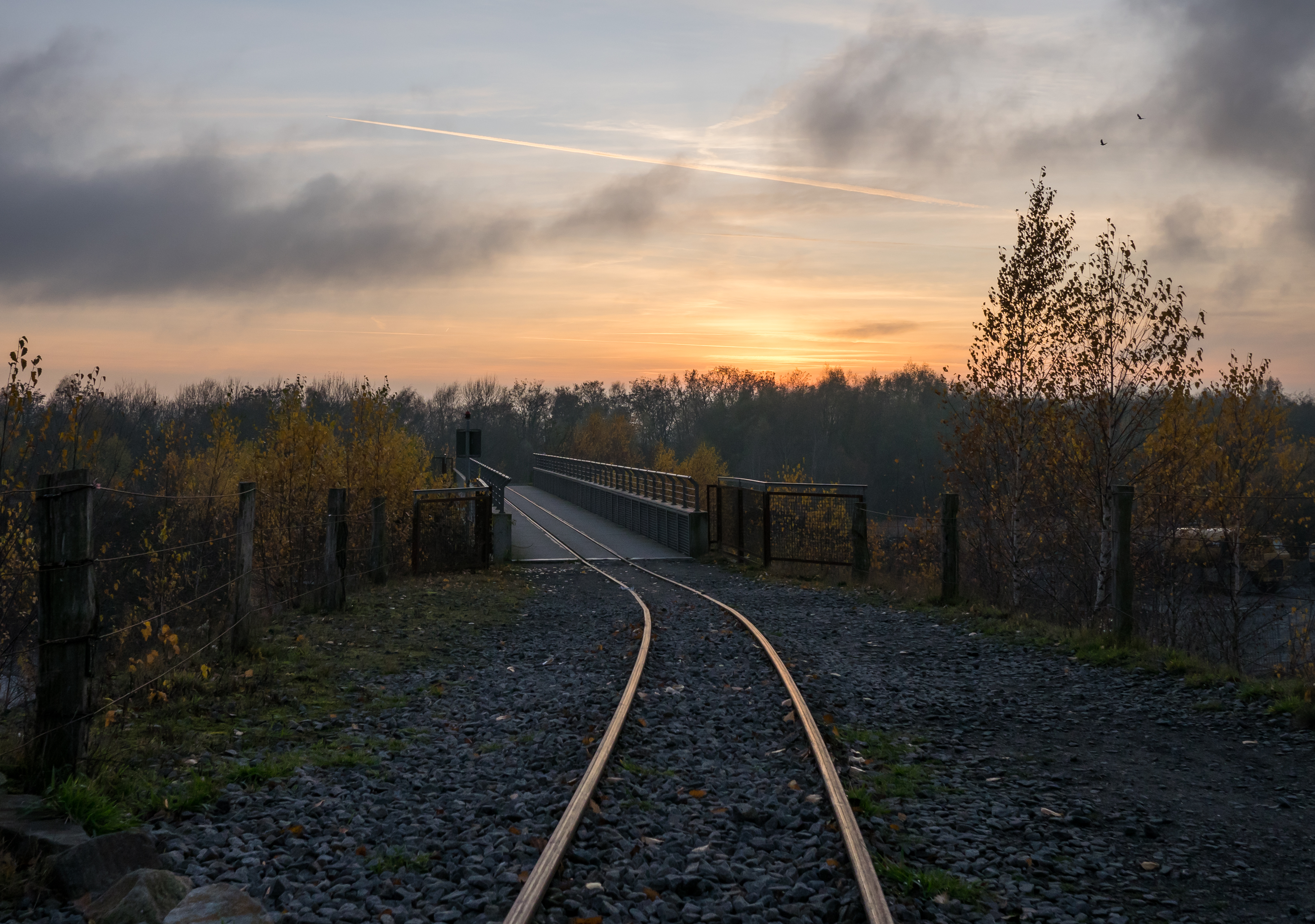 Rails of the Piesberg quarry railway and bridge, after sunset. The quarry railway (narrow gauge) is operated during summer by an association and the Museum for Industry Culture. Osnabrück, Lower Saxony, Germany